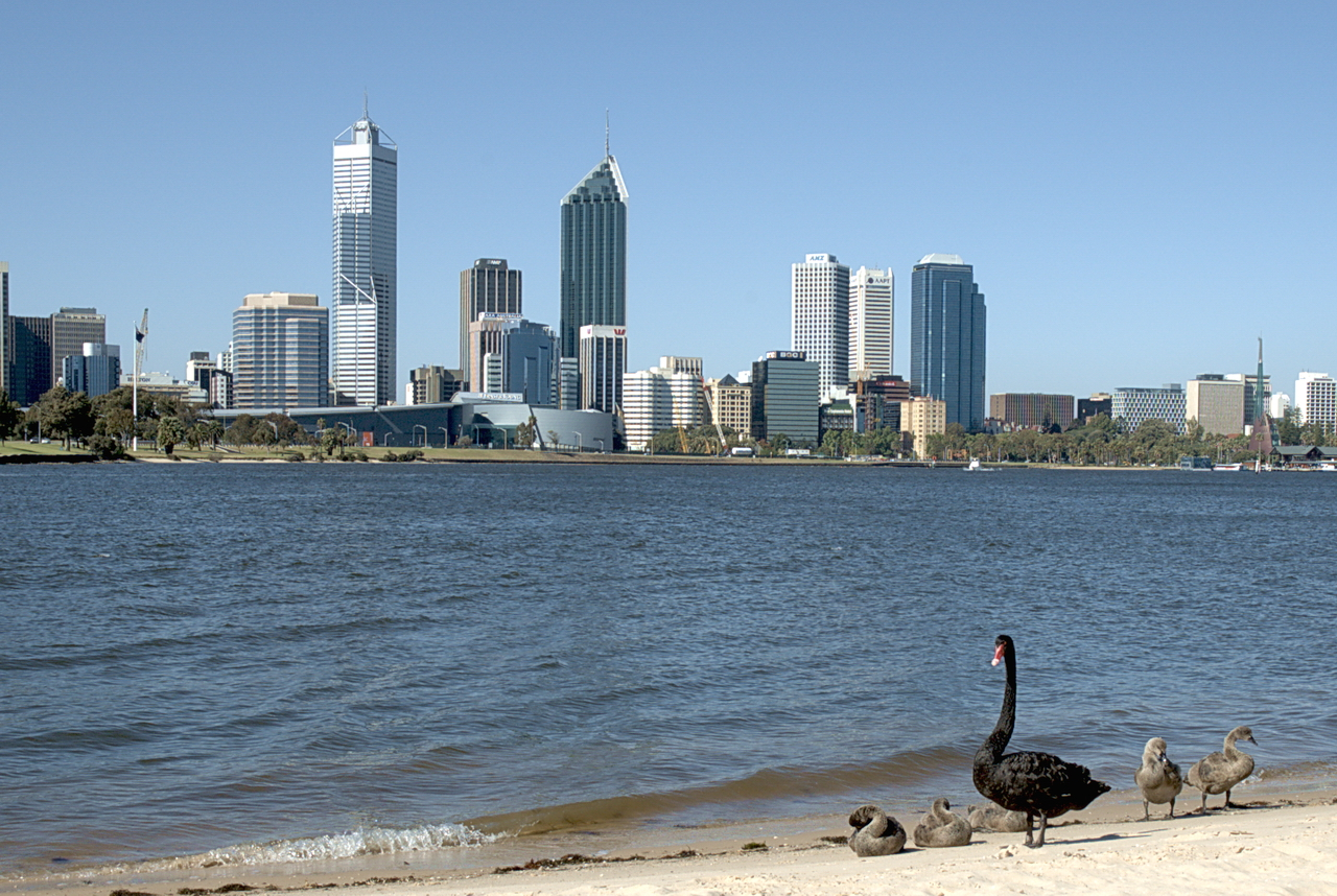 Black Swan on the Swan River, Perth Western Australia.